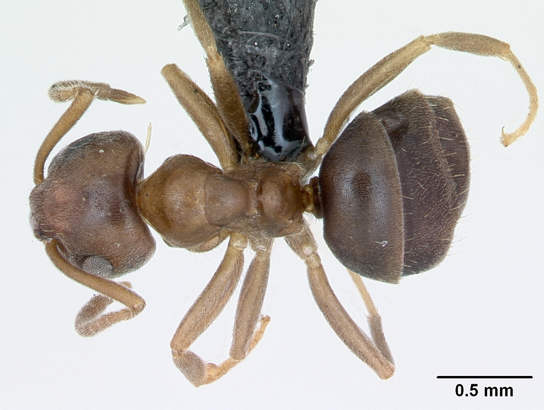 Dorsal view of ant Lasius brunneus specimen casent0172717.